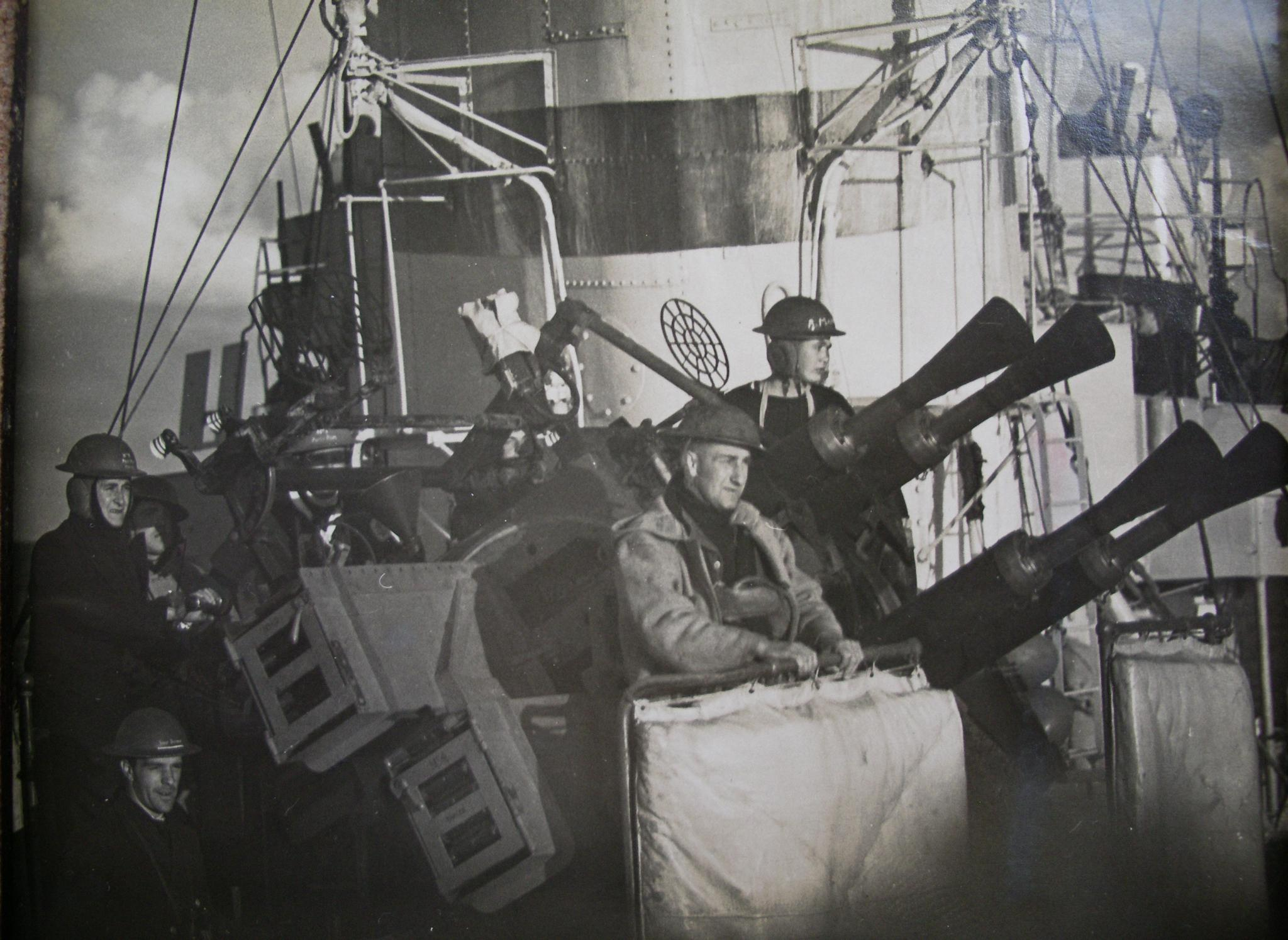 Quadruple Mark VII mounting of 2pdr (40 mm) Mark VIII anti-aircraft gun (popular pom-pom) on HMS Kelvin destroyer, seen in action during the Mediterranean campaign.